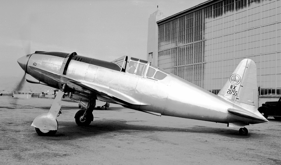 Experimental fighter design at Union Air Terminal, Burbank, in 1940. Mfg 1939, s/n2.